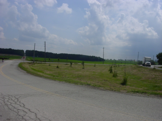 Punkeydoodle's Corners in Wilmot Township, Ontario, as viewed from Road 101A. The dirt road on the left of the image becomes Oxford Road 5, the dividing line for the Regional Municipality of Waterloo and Oxford County. The road visible on the right side of the photograph is Wilmot-Easthope Road, and becomes the dividing line between Oxford and Perth Counties.